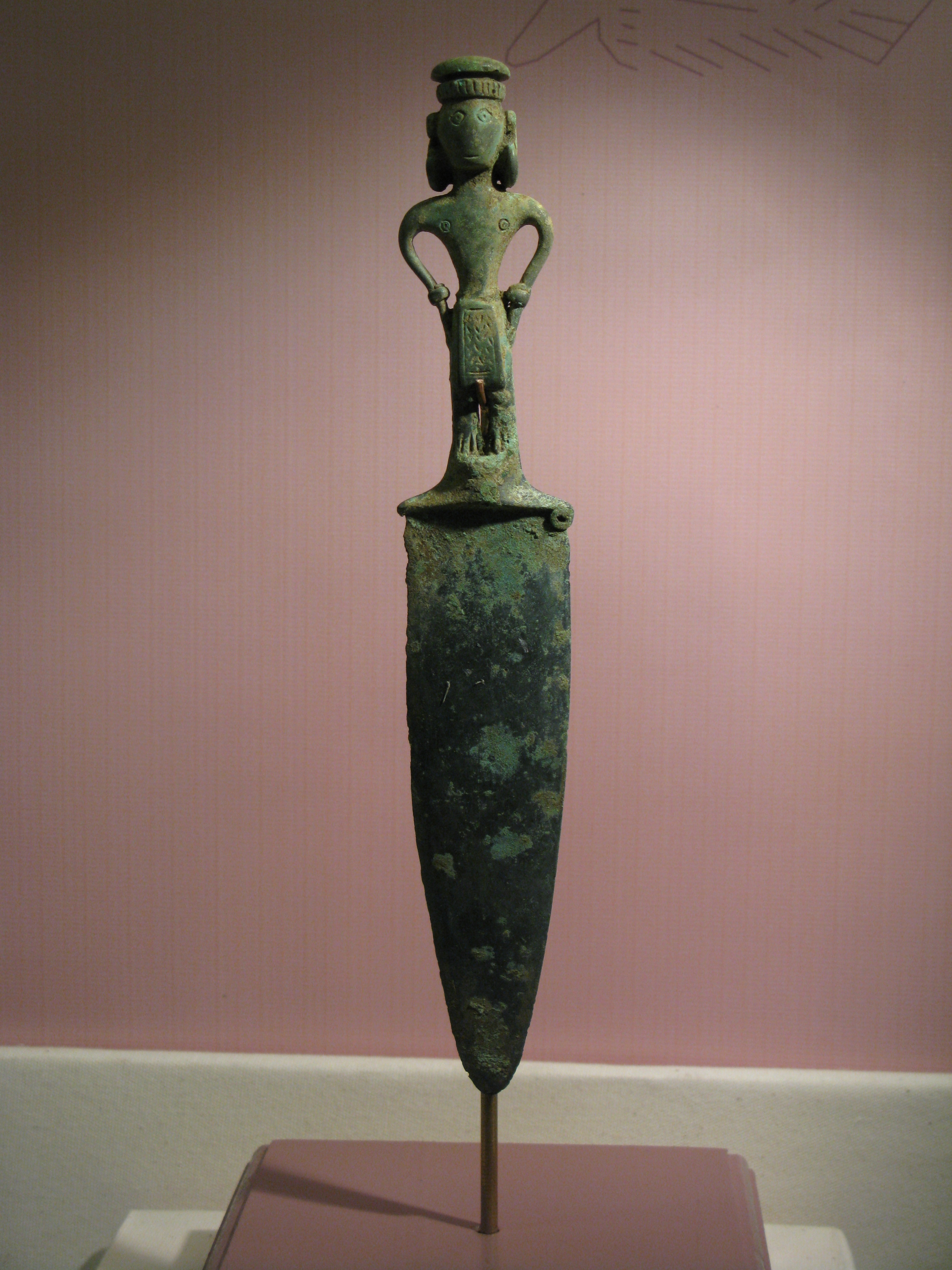 A bronze dagger, Dong Son Culture, 500 BCE - 0.